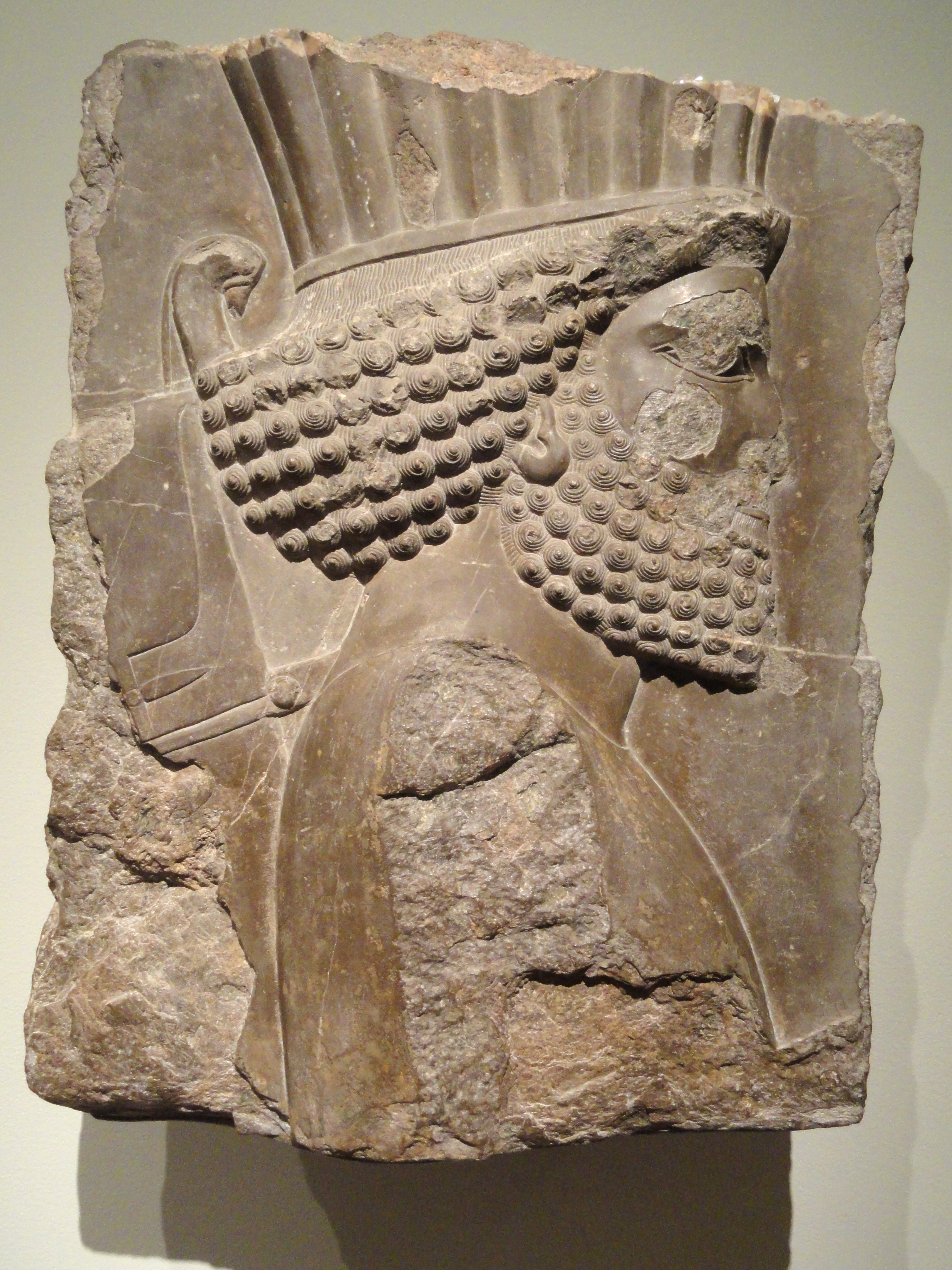 Fragment of wall decoration from the Palace of Xerxes, guardsman in procession, 486-465 BC, Achaemenid, Iran, Persepolis, gray limestone.